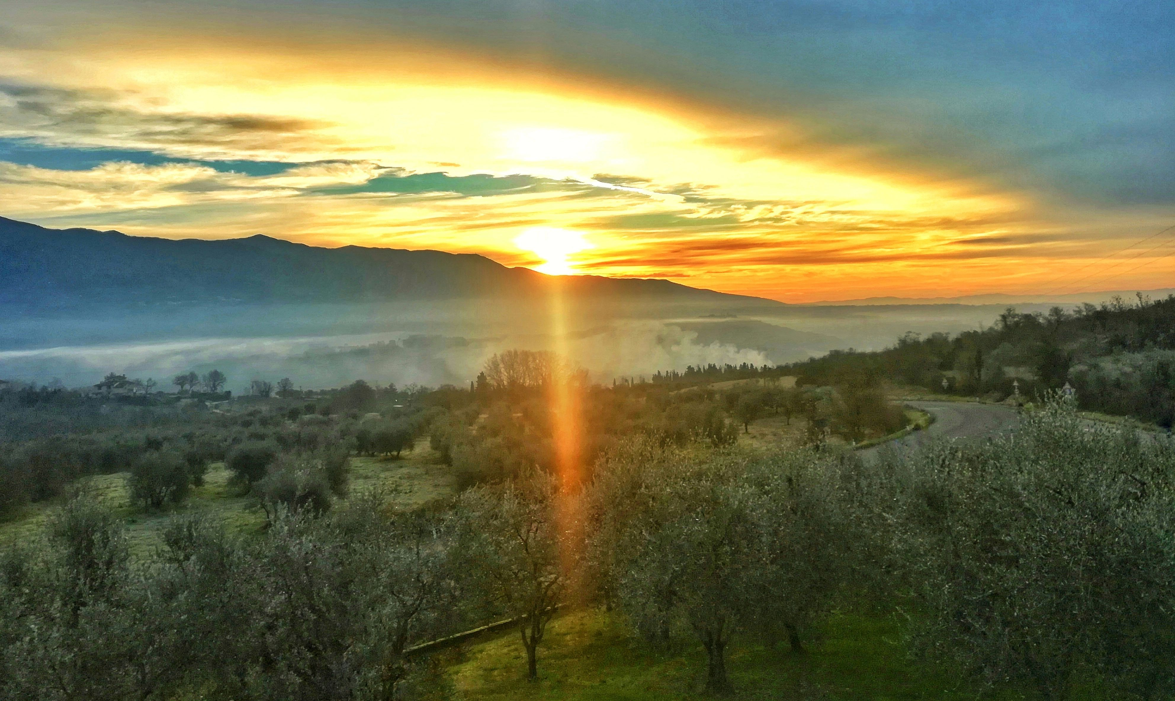 Alba on the Valdarno